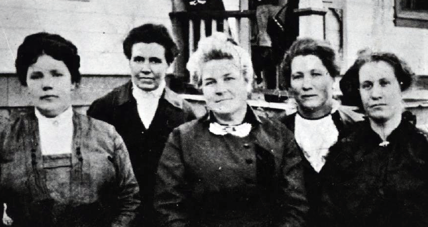 Mary Woolley Chamberlain with the all-women council she headed 1911-1913. Left to right: Luella McAllister, Blanche Hamblin, Mary W. Chamberlain, Tamar Hamblin, and Ada Seegmiller.